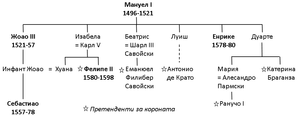 Portuguese succession 1580